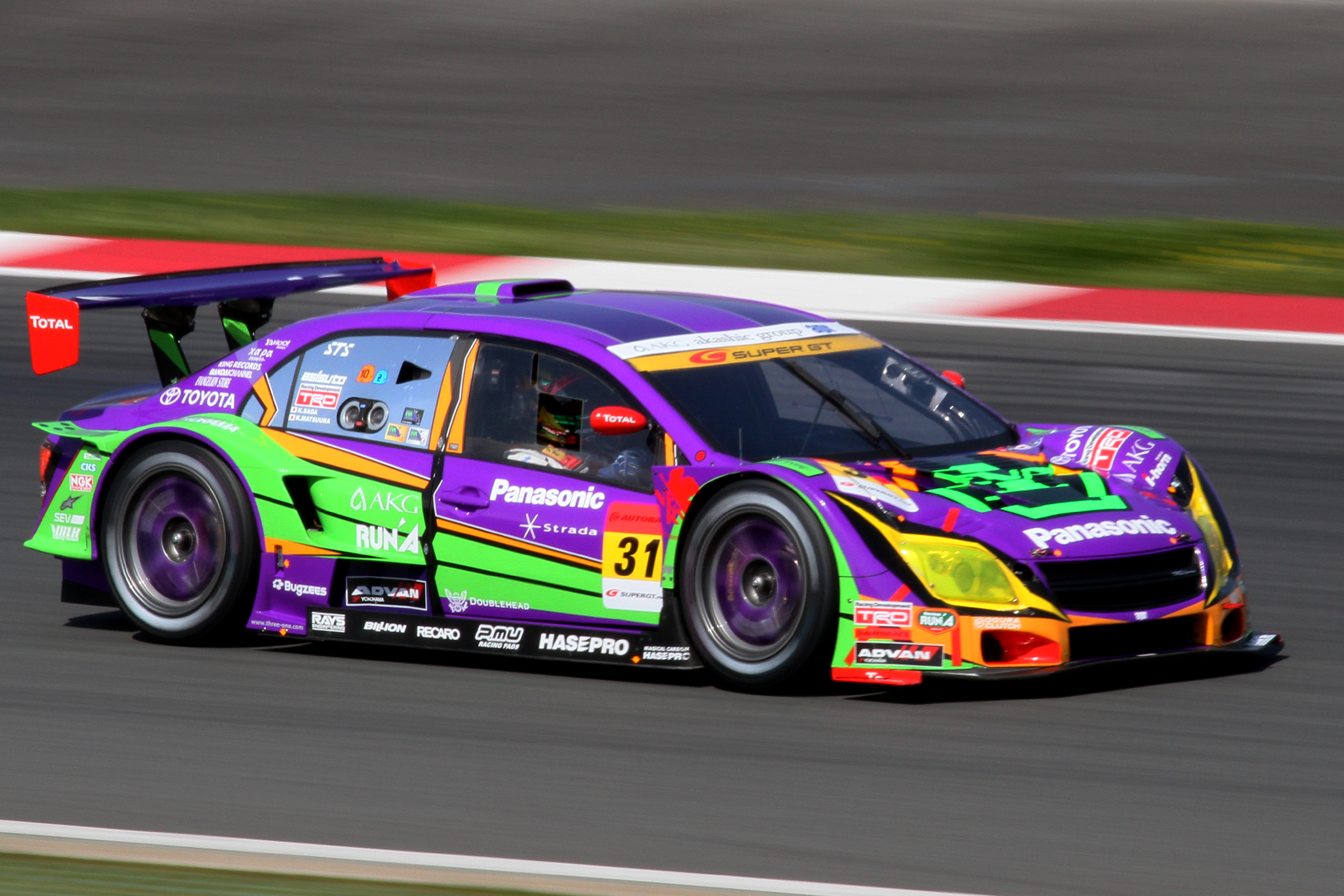 Super GT 2010 Rd.3 Fuji GT 400km: Kosuke Matsuura (EVA Racing) driving the Evangelion RT TEST TYPE-01 apr Corolla during qualify session.